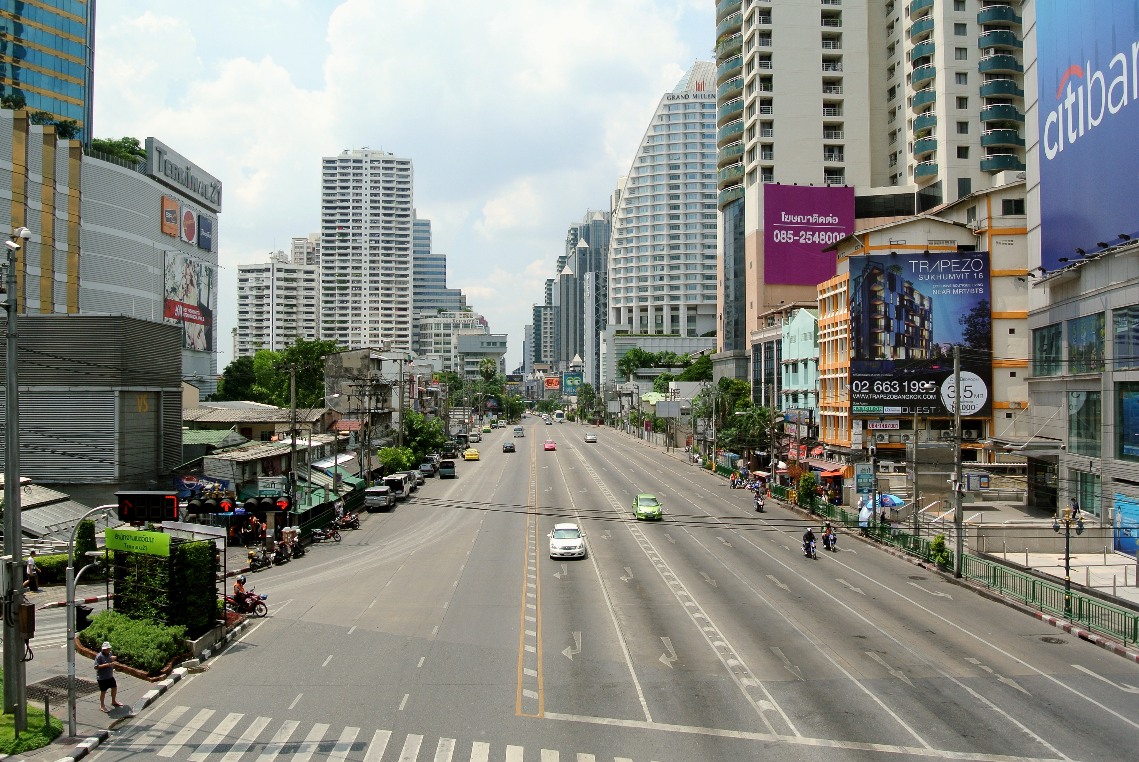 Thanon Asok Montri at Thanon Sukhumvit crossing, seen towards north, Grand Millenium building on the right, Terminal 21 shopping center on the left.